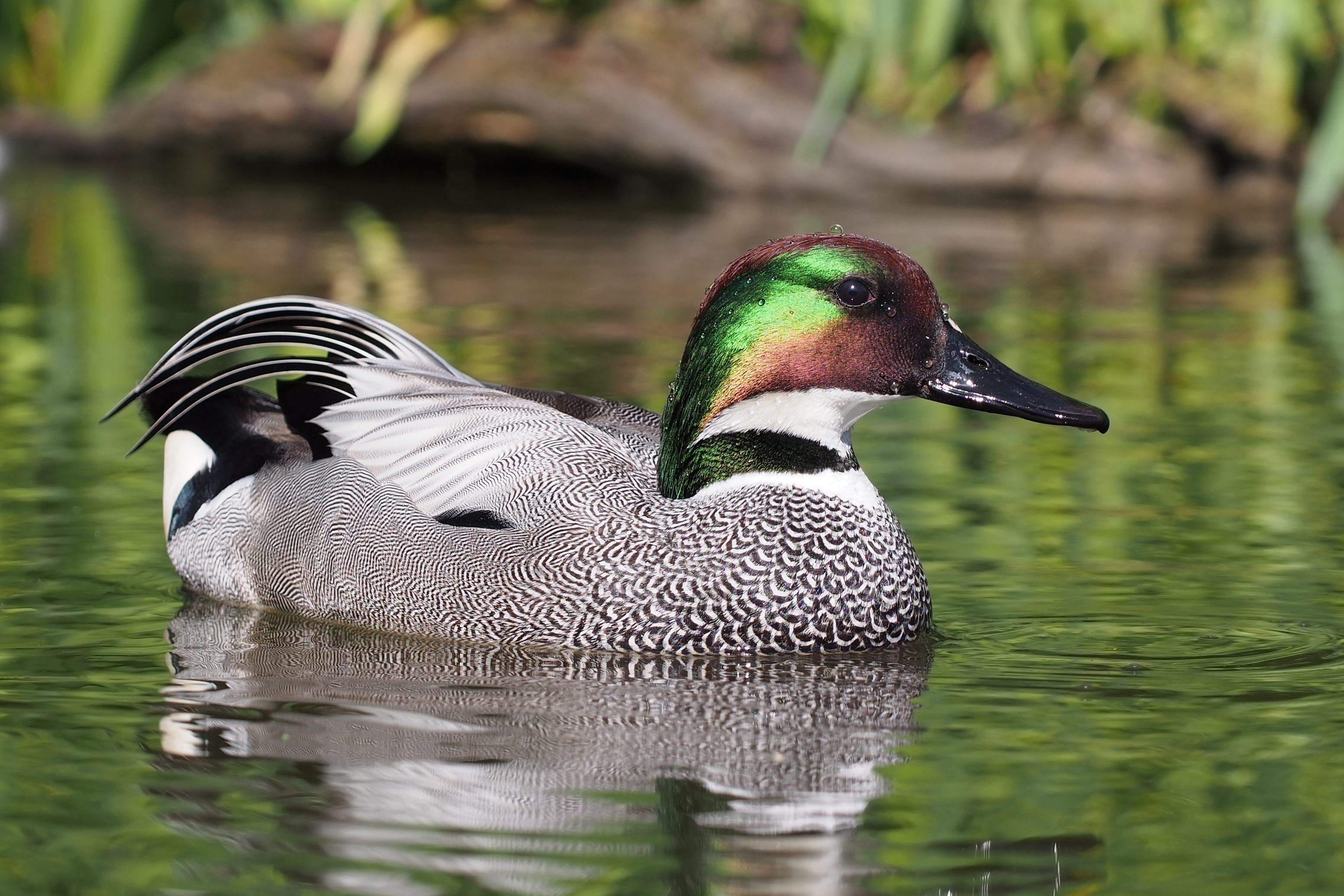 Falcated duck, Anas falcata, at Martin Mere, UK